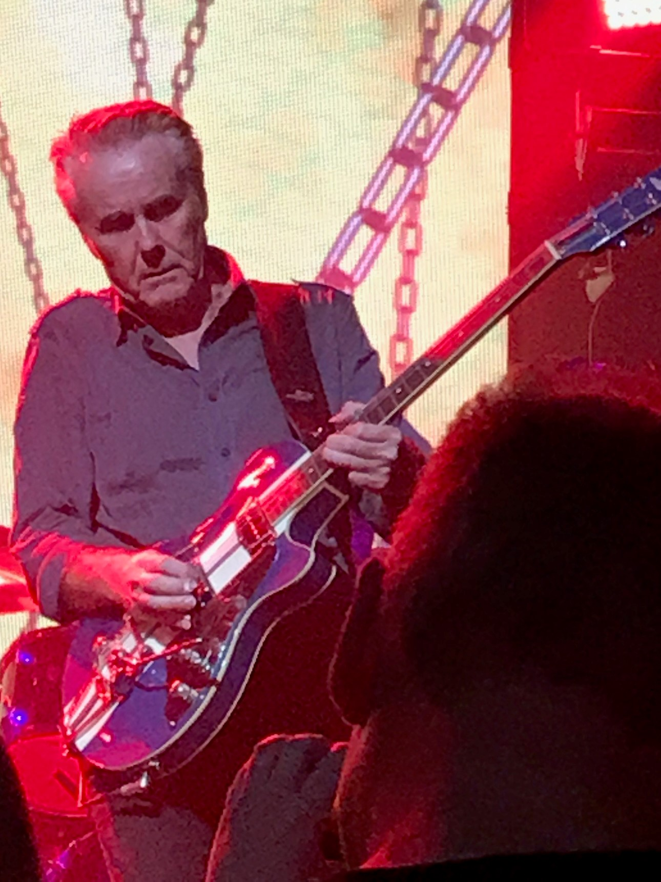 Photo of musician Paul Gildea taken at Enmore Theatre,Sydney on 17 December 2017